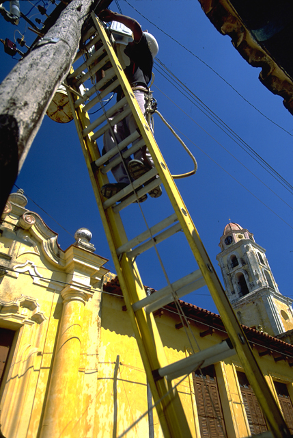 A ladder. Ladder and telegraph pole.jpg. Can you help me climb the ladder? No double meanings, I am just being a regular joker. :D — Nearly Headless Nick 12:17, 16 January 2007 (UTC).